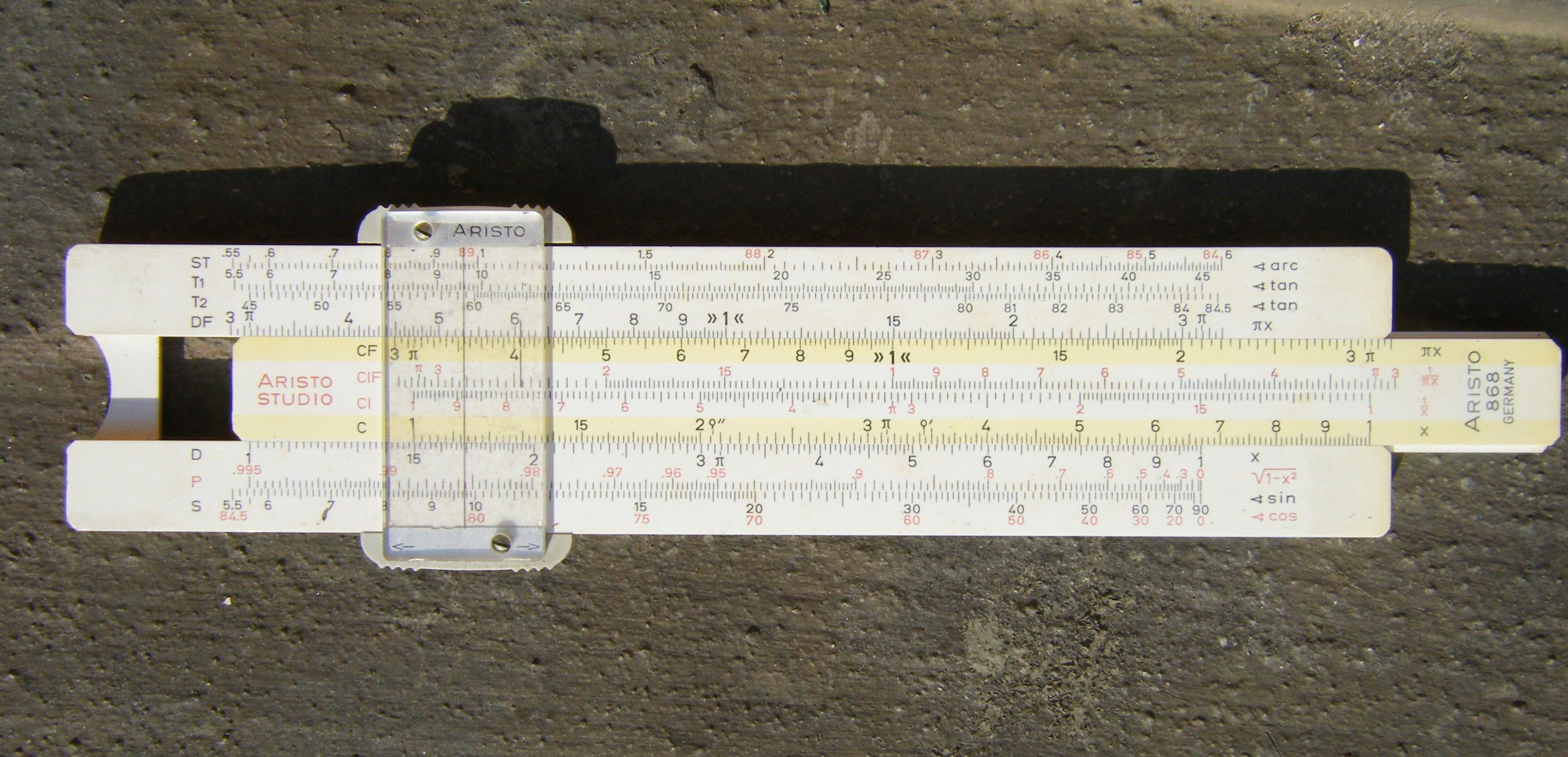 Slide rule Aristo